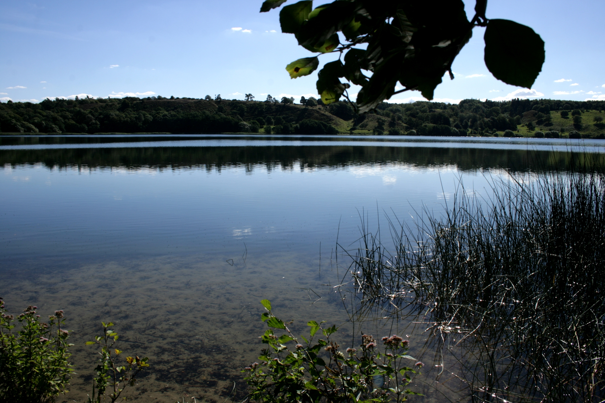 Dollerup Bakker, near Viborg, Jutland, with a view over Hald Sø